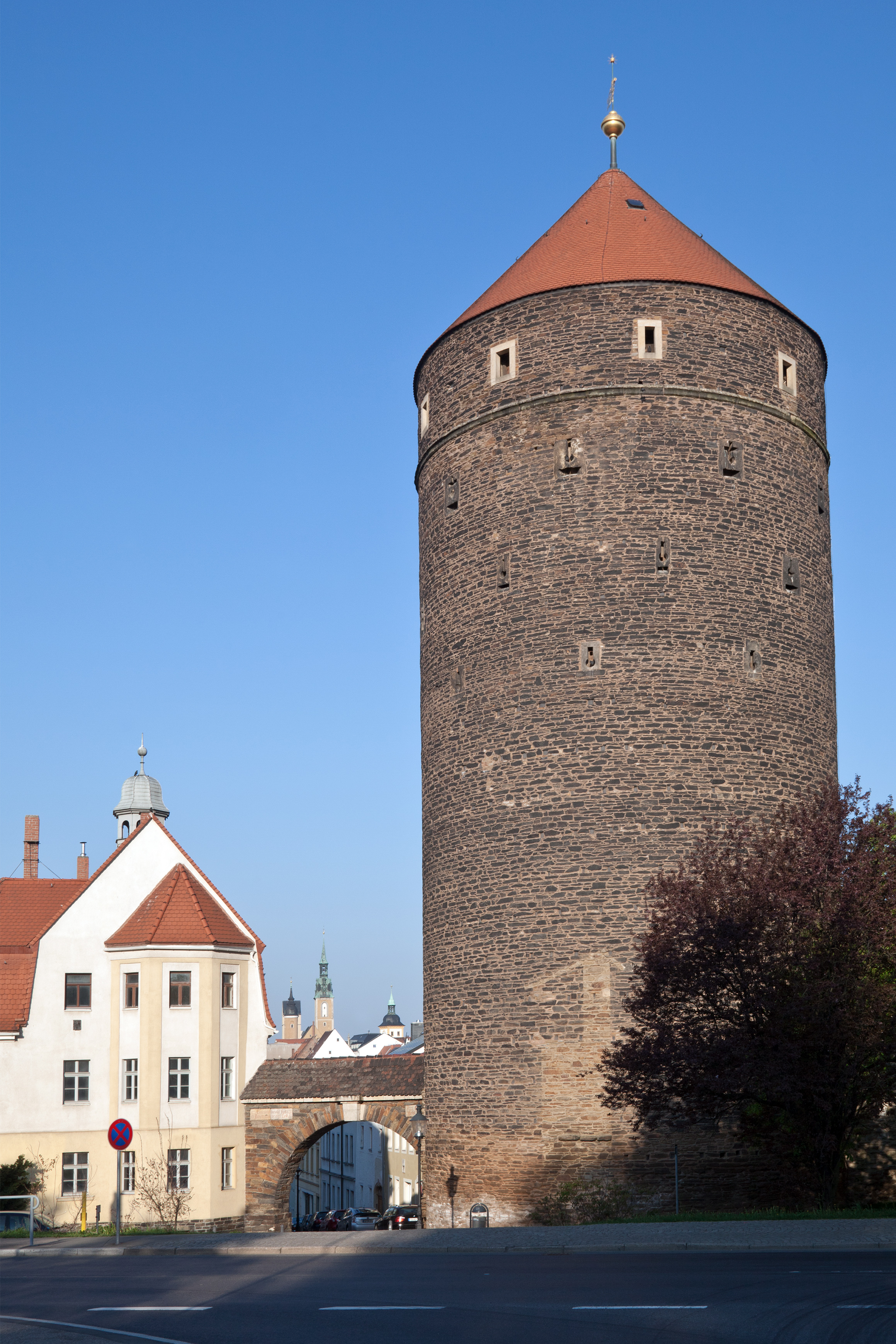 Freiberg, Donatsturm